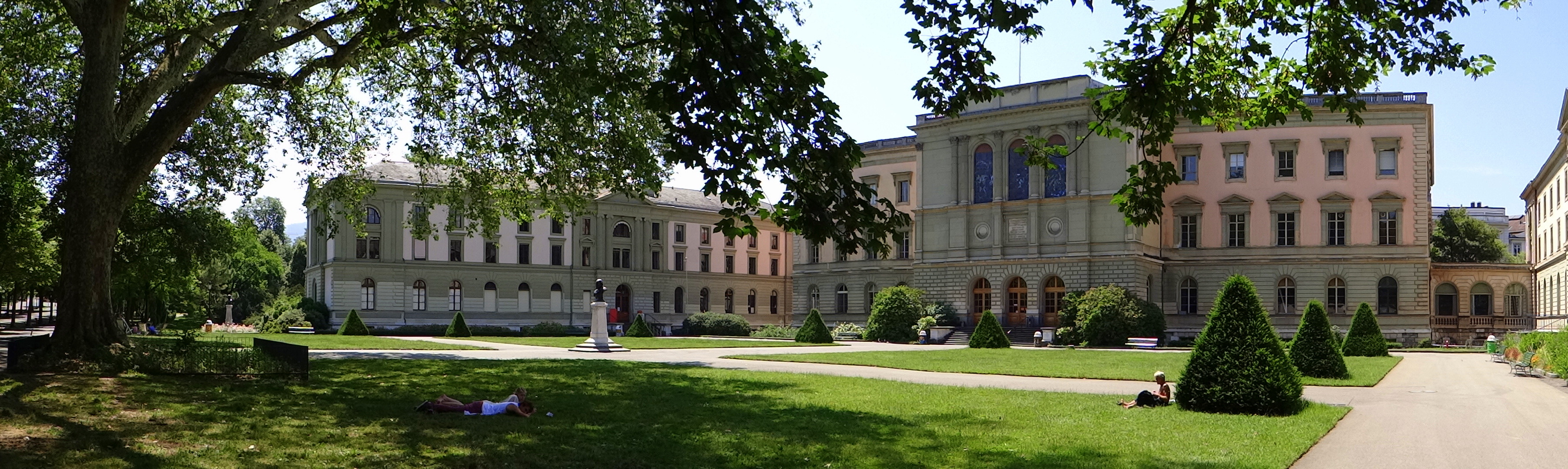 University of Geneva